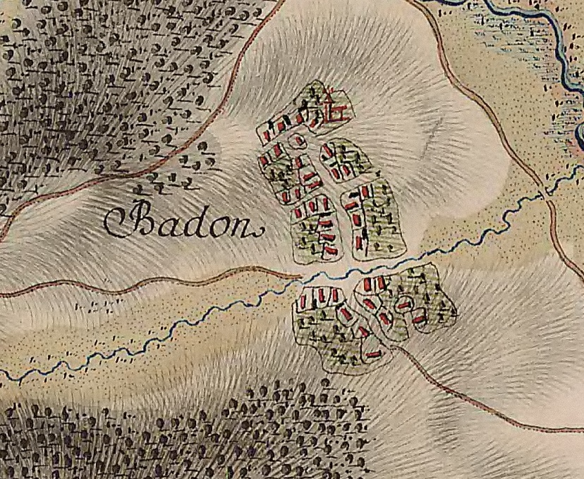 Badon in the 18 century. The map was drawn between 1769 and 1773.